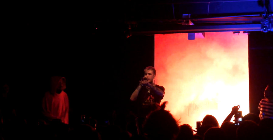 Lil Peep live in Amsterdam, 10.17.17